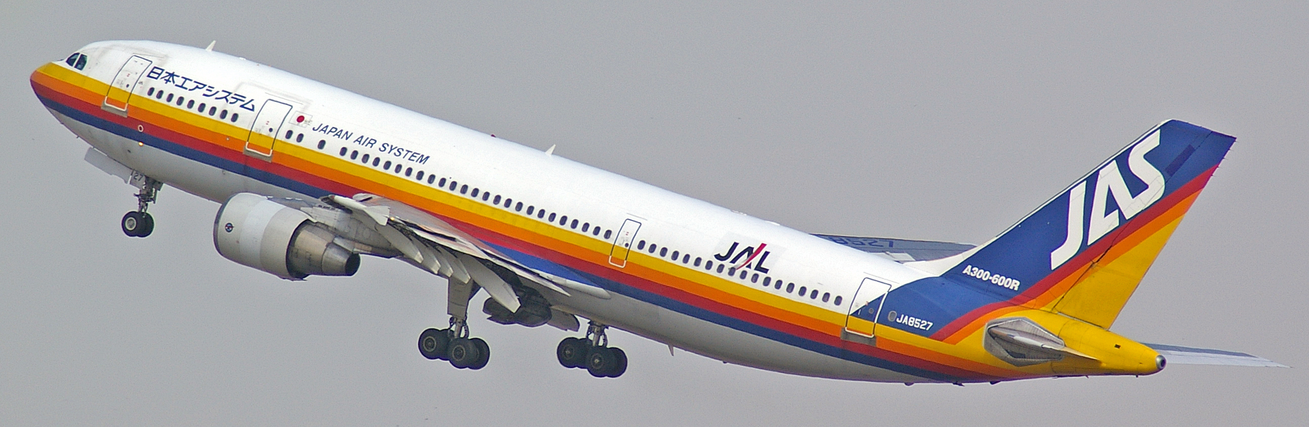 Japan Air System A300 with JAL logo